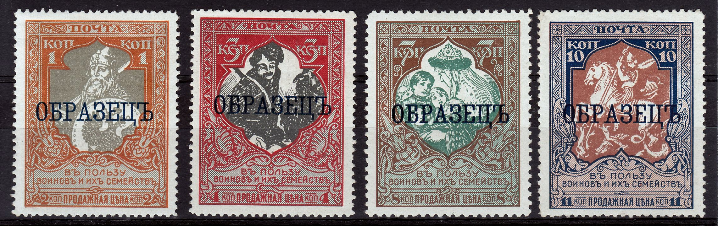 Stamps of Russia overprinted 'OBRAZETS' (specimen).